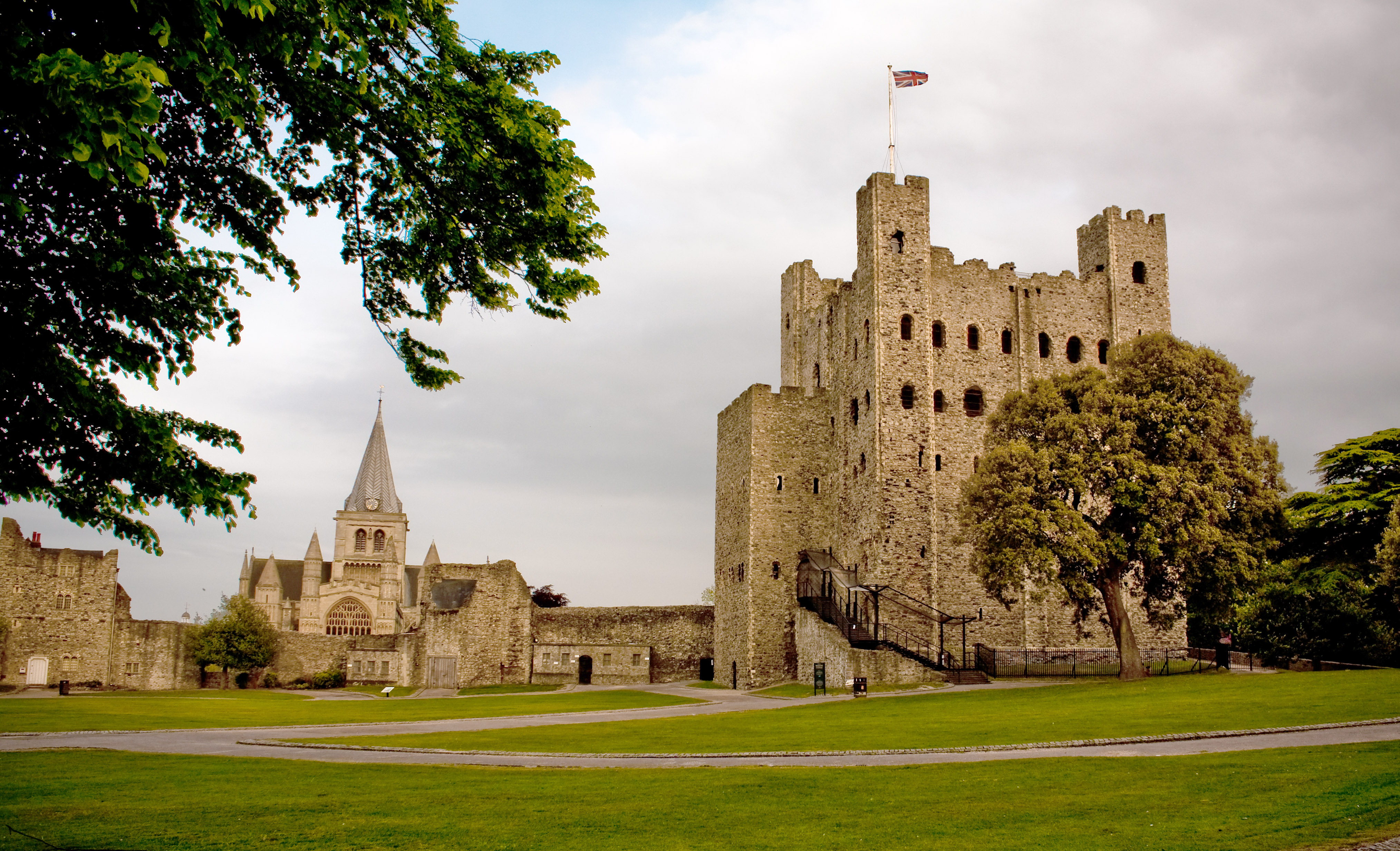 The inside of Rochester Castle showing the keep. Rochester Cathedral is in the background, poking above the castle's curtain wall.